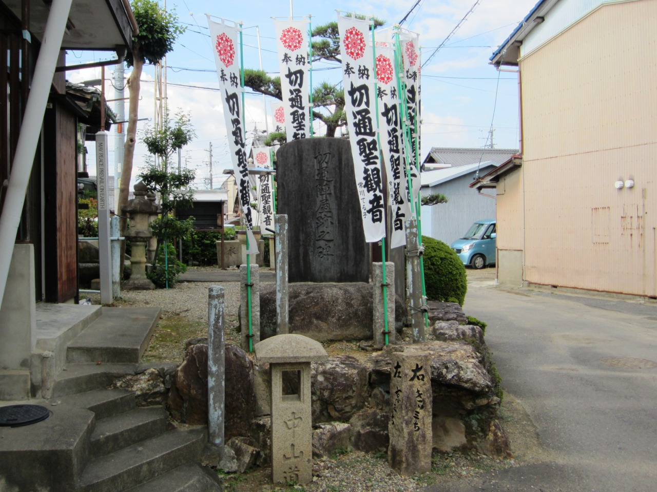 The site of Kiridōshi Jin'ya in Gifu, Gifu.